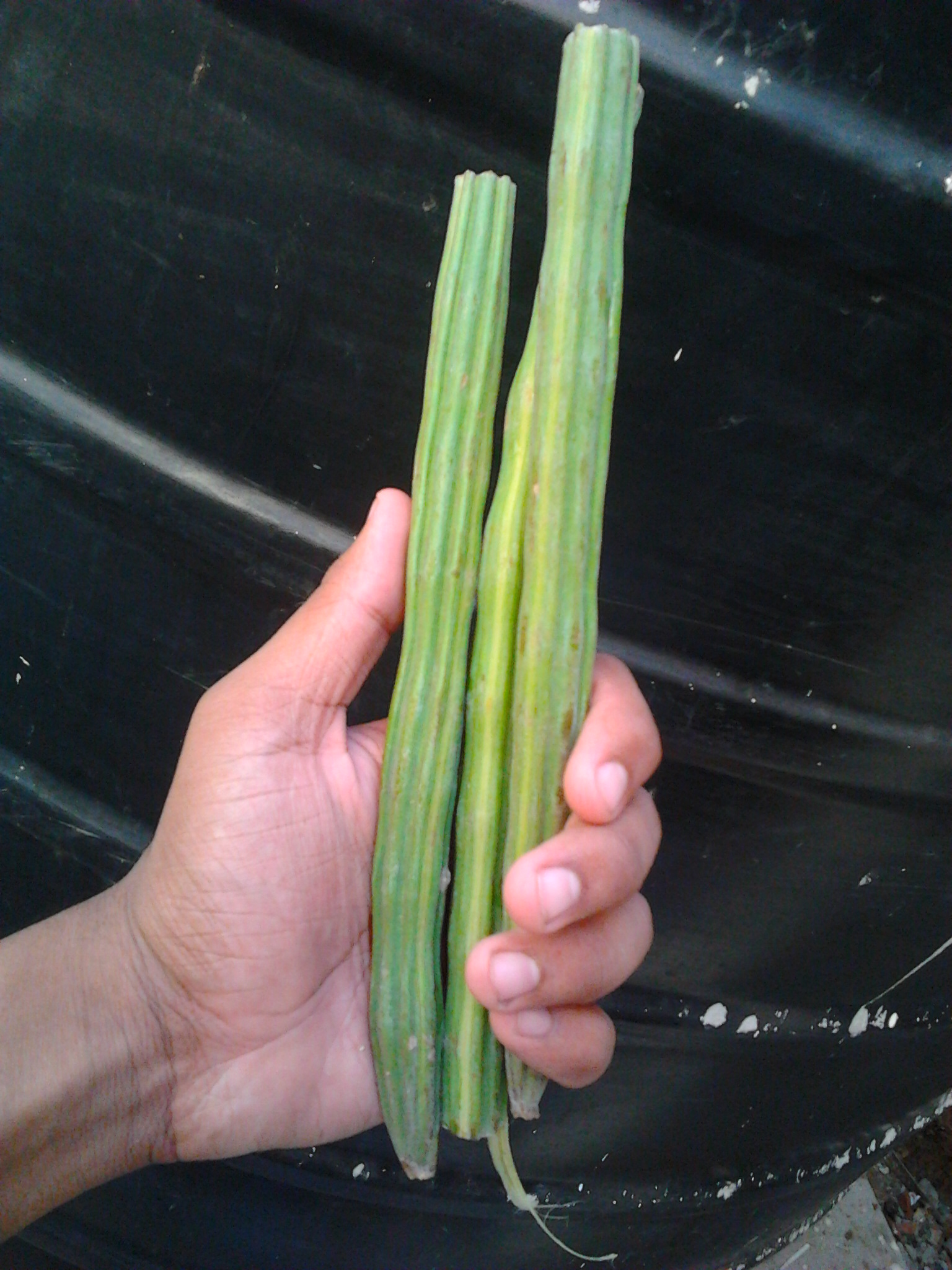 Photoed using Samsung Wave 525.